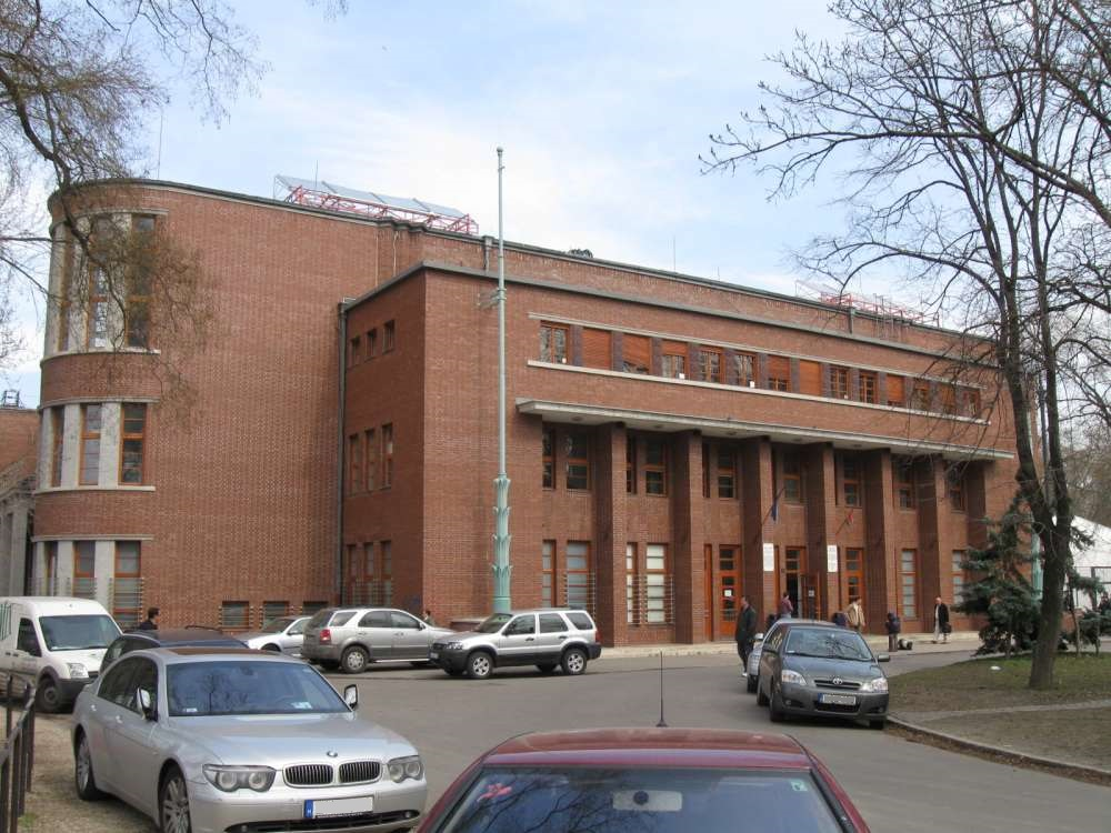 Alfred Hajos National Sport Swimming Pool, Margaret Island, Budapest, Hungary This is a photo of a monument in Hungary, Identifier: 1200